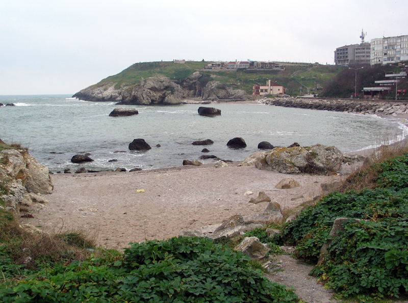 Şile bay